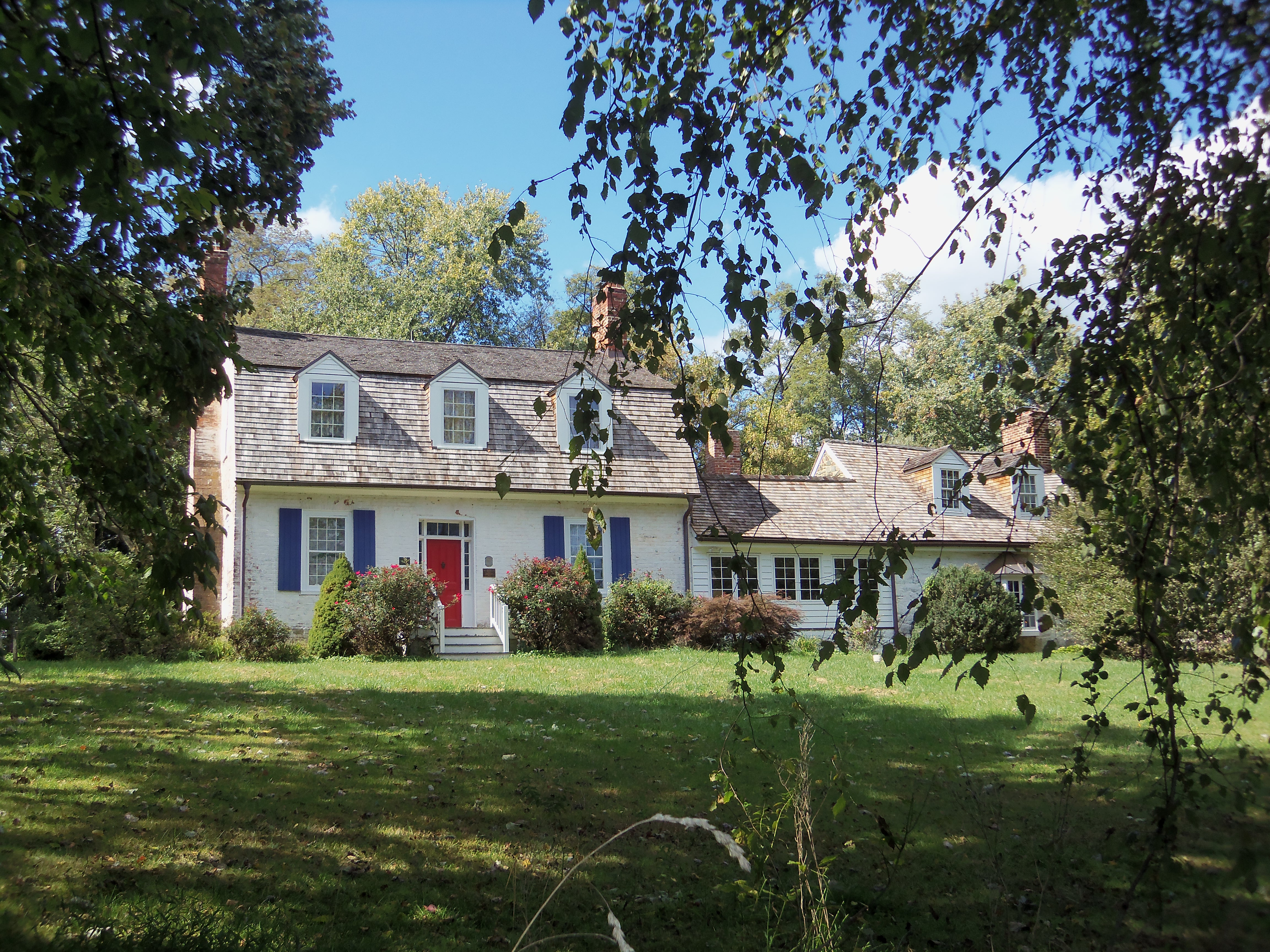 The Ridge